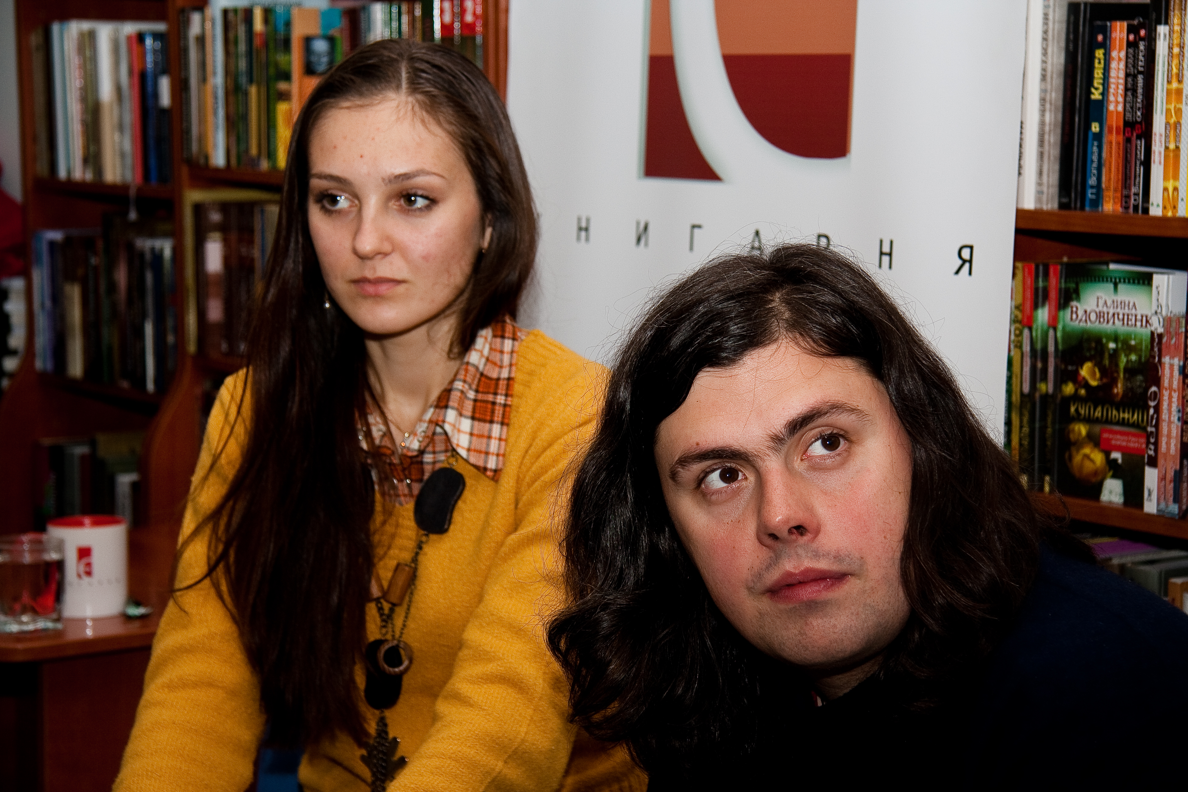 Oleg Kotsarev in Vinnitsya, october 2012